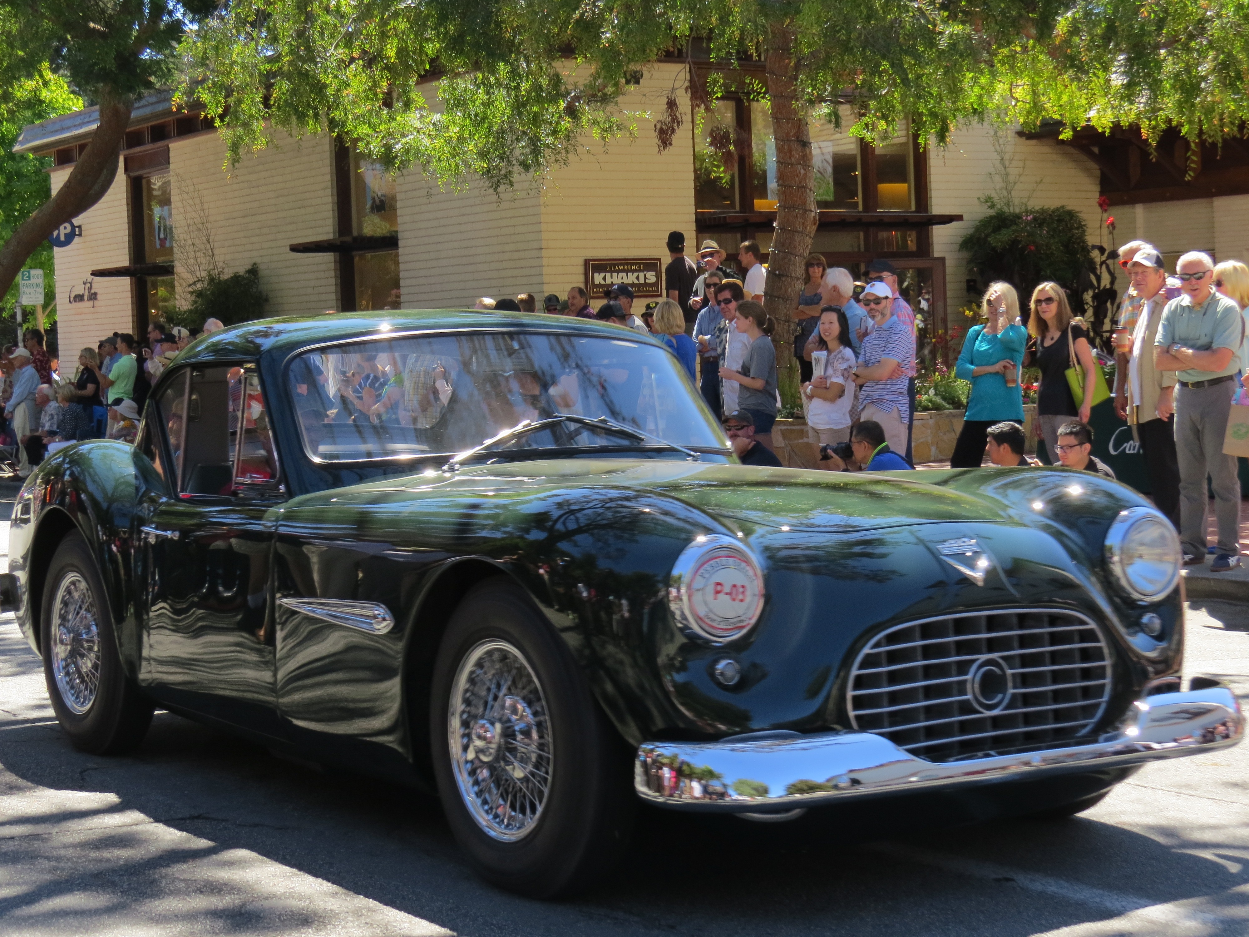 The 1951 Cunningham C3 prototype (#5206X) at the 2015 Carmel Tour d'Elegance, August 13, 2015. The coupé bodywork was based on that of a C2 but after lots of trouble, finishing the car was outsourced to Vignale. The car was bought by Carl Kiekhaefer of Mercury Marine, who later had "5206" applied to a regular C3 Vignale Coupé to dodge taxes; this car is now referred to as 5206X.